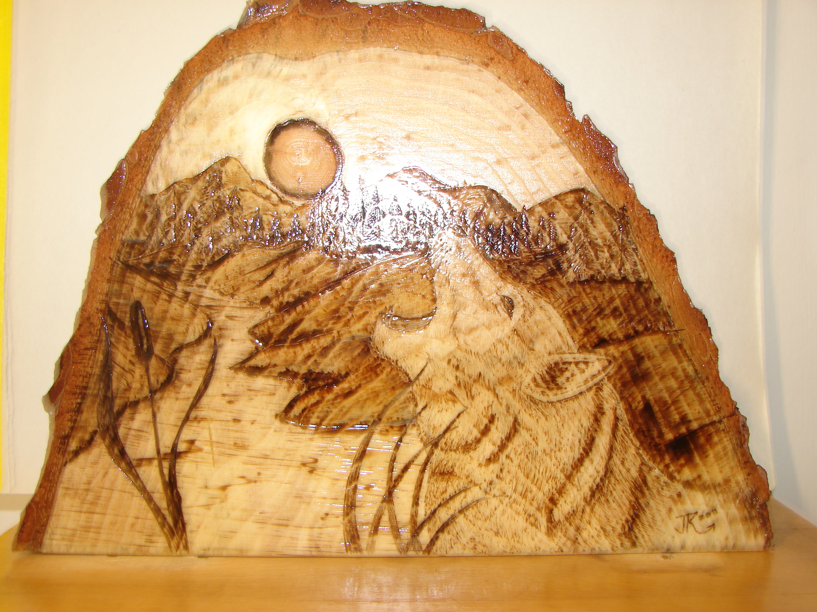 Original artwork by Kenneth Rideout, Jr. Maine Wolf howling at moon. Wood-burned (pyrograghy) on Pine